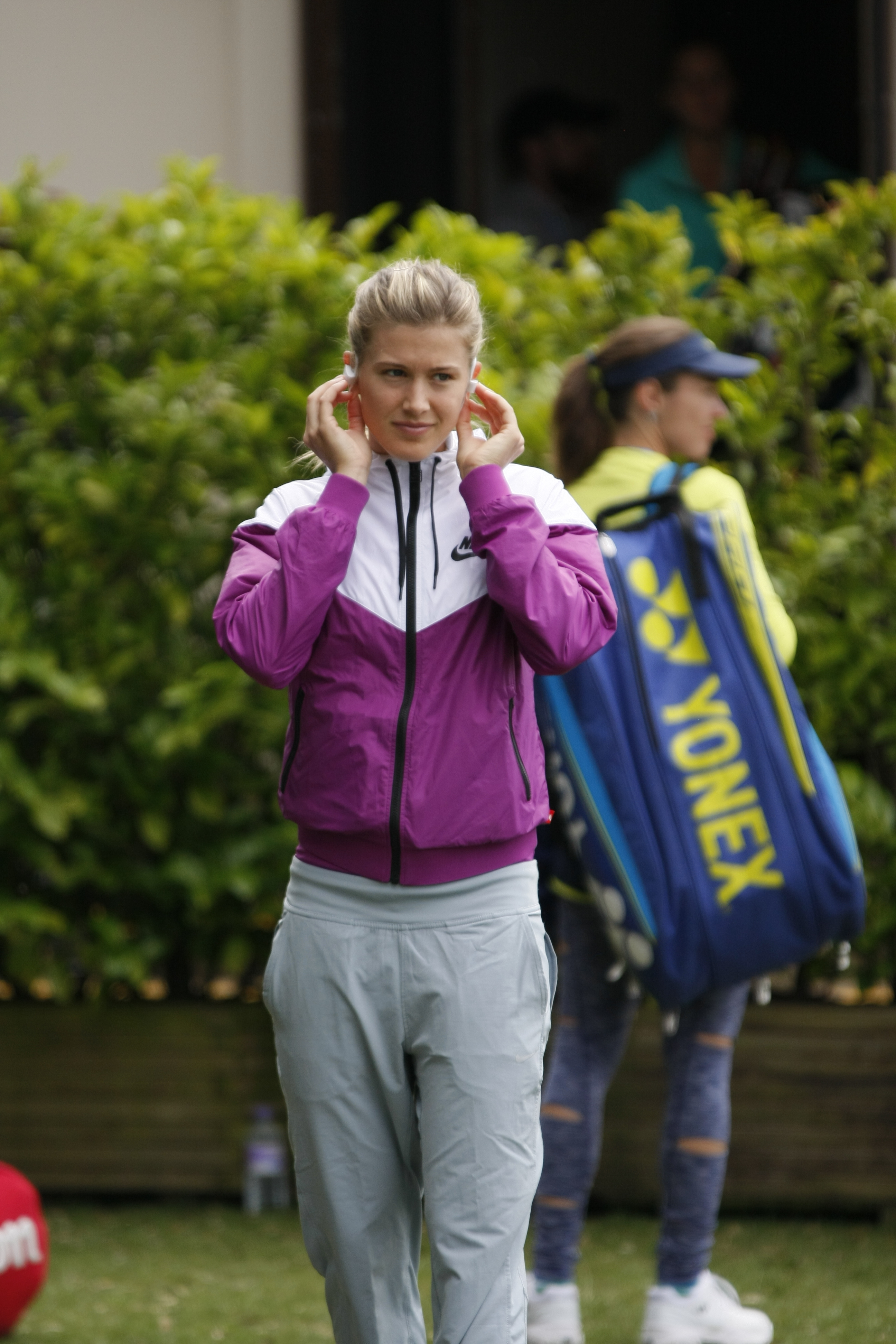 Aegon International Tennis, Devonshire Park, Eastbourne June 2015